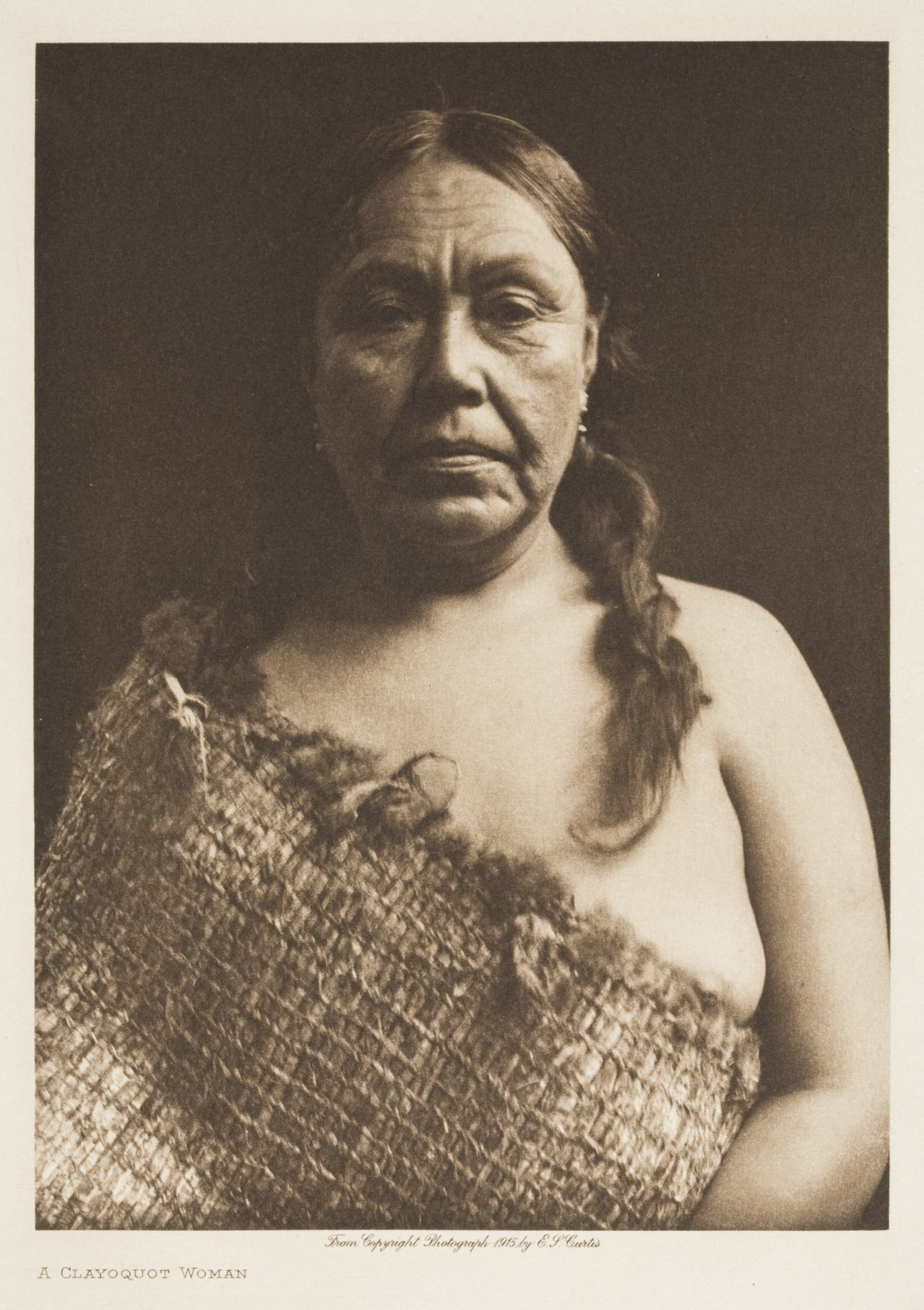 United States, 1915 Photographs Photogravure on paper Gift of Mark and Pam Story (AC1997.271.33) Photography